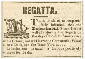 THE Public is respect- fully informed that the Experiment Steam Packet will ply during the Regatta on the day of the 50th Anniversary of the Colony, and will leave the Commercial Wharf at 10 o'Clock, and the Dock Yard at 11. Refreshments as usual, a Band is positively engaged for the day.